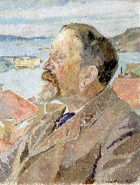 Hjalmar Lundbohm, 1855-1926, founder of the city of Kiruna.